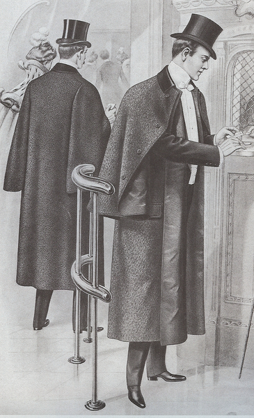 A fashion plate of a formal Inverness coat